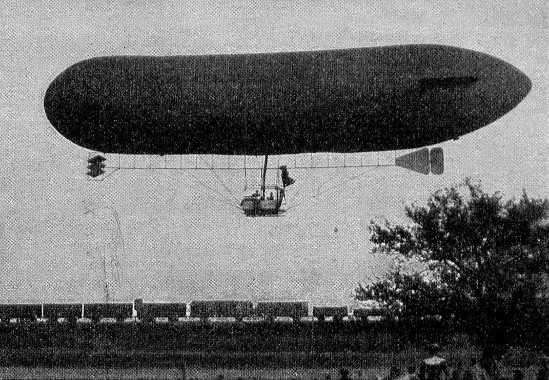 A balloon airship with two aeronauts on board, close to the ground at the "Internationale Luft- und Raumfahrtausstellung Frankfurt" 1909. This international airship event lasted 100 days and was the world's largest of this kind ever. In the background: a railway.